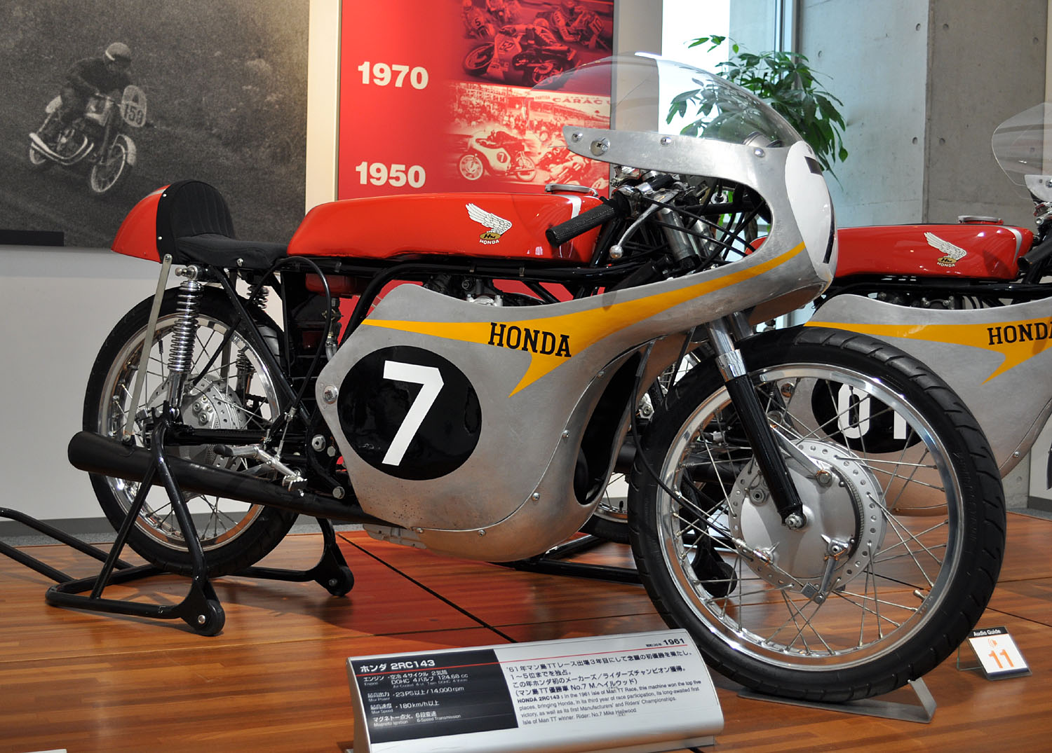 Honda 2RC143 ( Mike Hailwood, Isle of Man TT 1961 )